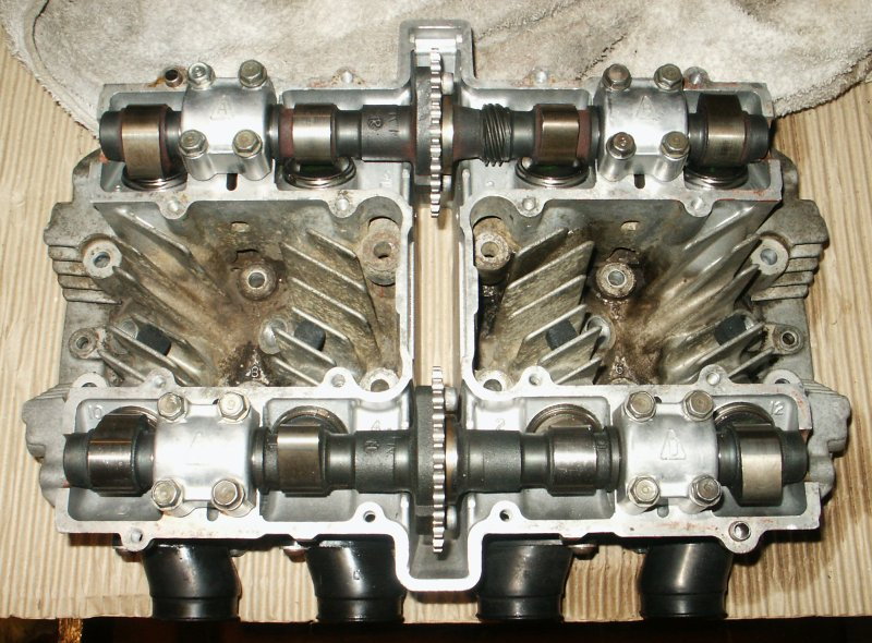 Engine head of a 1977 Suzuki GS550, clearly showing the dual overhead cams. The timing chain (not shown) runs over the two central sprockets and is driven by a third sprocket on the crankshaft at the bottom of the engine. Image taken by Matthew Newton.